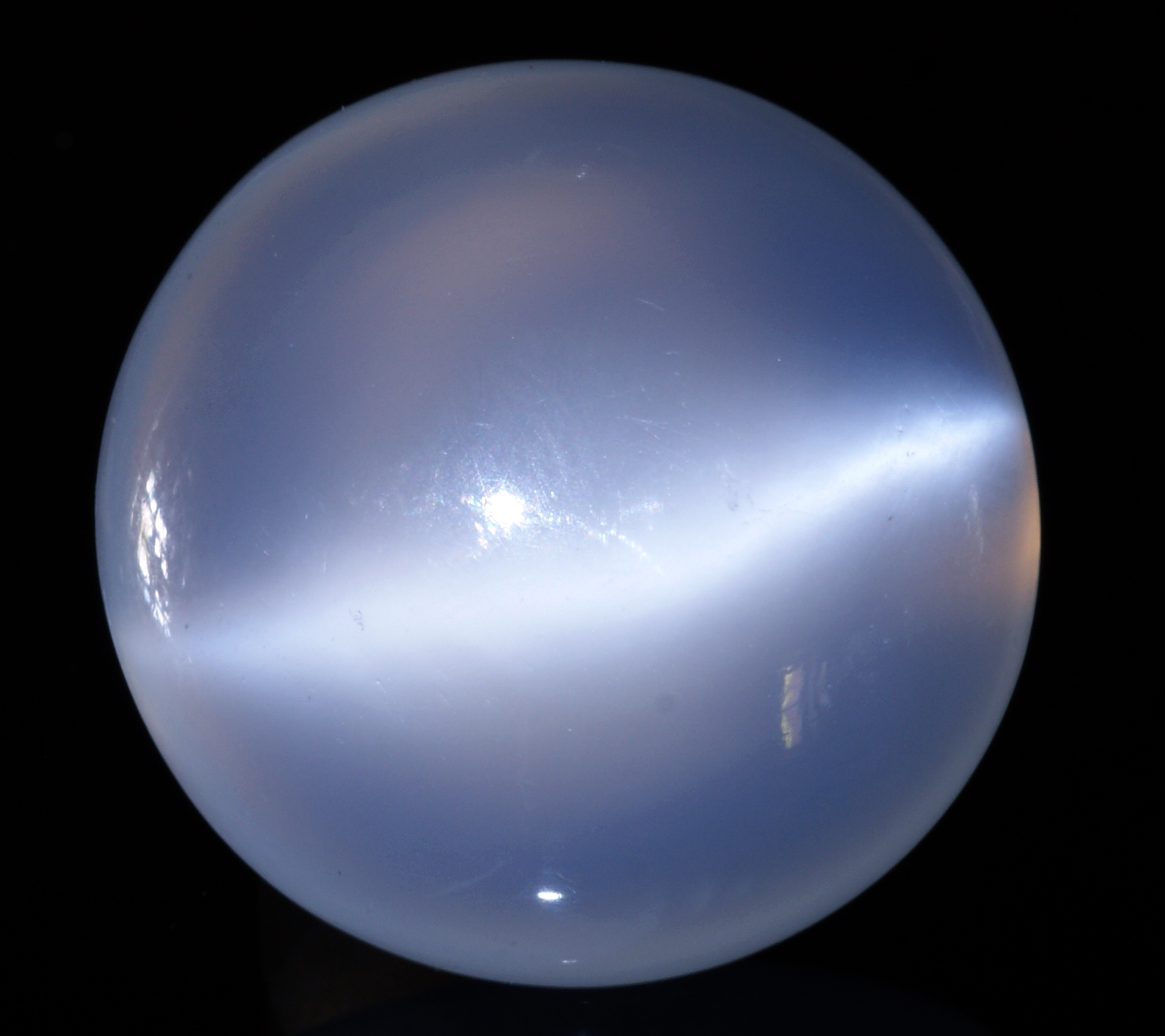 Moonstone - Cabochon Locality : Minas Gerais Brasil Size : (23mm)